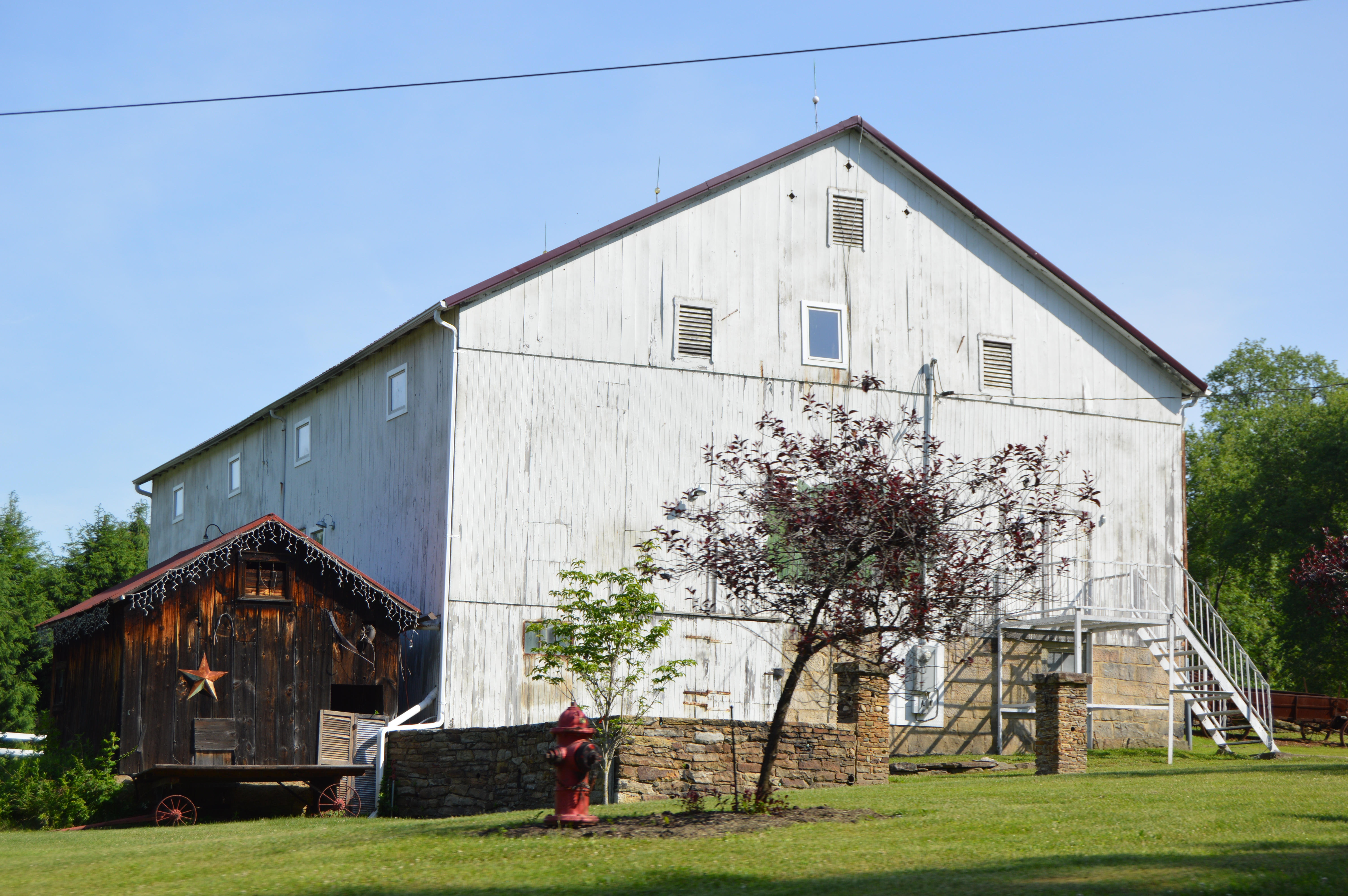 A barn on the northern side of Pennsylvania Route 368 immediately west of St. Petersburg in Richland Township, Clarion County, Pennsylvania, United States.